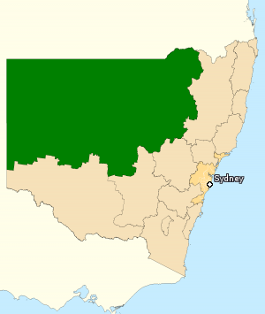 Incorporates or developed using Administrative Boundaries ©PSMA Australia Limited licensed by the Commonwealth of Australia under Creative Commons Attribution 4.0 International licence (CC BY 4.0). Derived from State and Territory Boundaries from the Australian Bureau of Statistics under Creative Commons Attribution 2.5 Australia license (CC BY 2.5 AU)